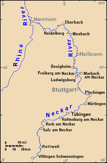 Map of the Neckar watershed in southwest Germany, showing largest cities and river names. Large city names (6) have been re-labeled with font-face Arial or Arial Narrow, as font-size 9 or 10; the region names are labeled in italic font. Germany contains over 3,500 cities/towns, but they are evenly dispersed around the main towns. This map has locator code "GermanyNeckar" for use in map-locator templates, such as English Wiki Template:Location_map_GermanyNeckar & Template:Location_map_skew (which skews northern coordinates for multiple map markers / labels, skew=0.89). The latitude/longitude coordinates are NOT equirectangular, with longitudes converging from south to north by 95% closer: the longitudes at bottom range from 8-9.6 degrees, but at top, range 7.95-9.66 degrees apart. The latitude is calibrated for exactly 48-49.7 degrees N. The original map image has a GFDL license; the extensions are as follows: narrowed 144px as 370px to magnify 28%; some river names have been added; bolded names of largest towns to be readable as 220px thumbnail size; added town/river names: Neckar, Rhine, etc.